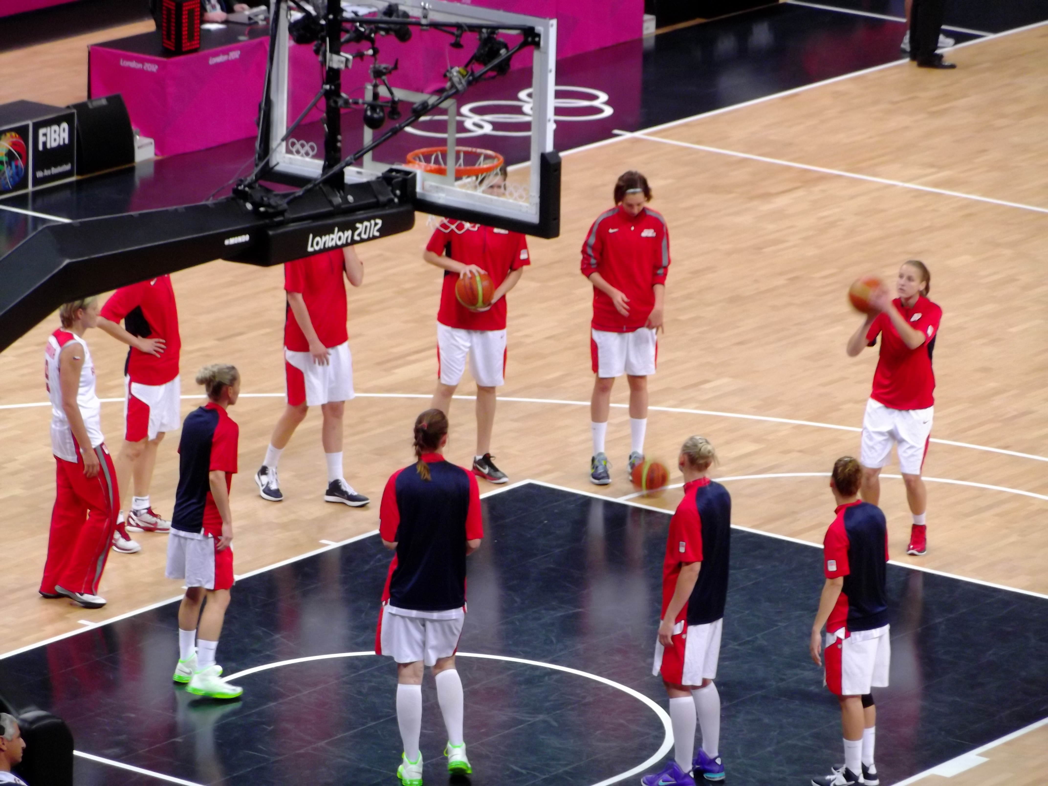 Czech team during warm-up before match versus Turkey, Women's basketball tournament at the 2012 Summer Olympics in London